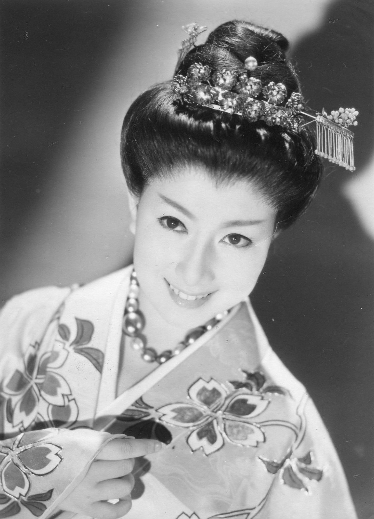 Portrait of the actress Fujiko Yamamoto (1950s)